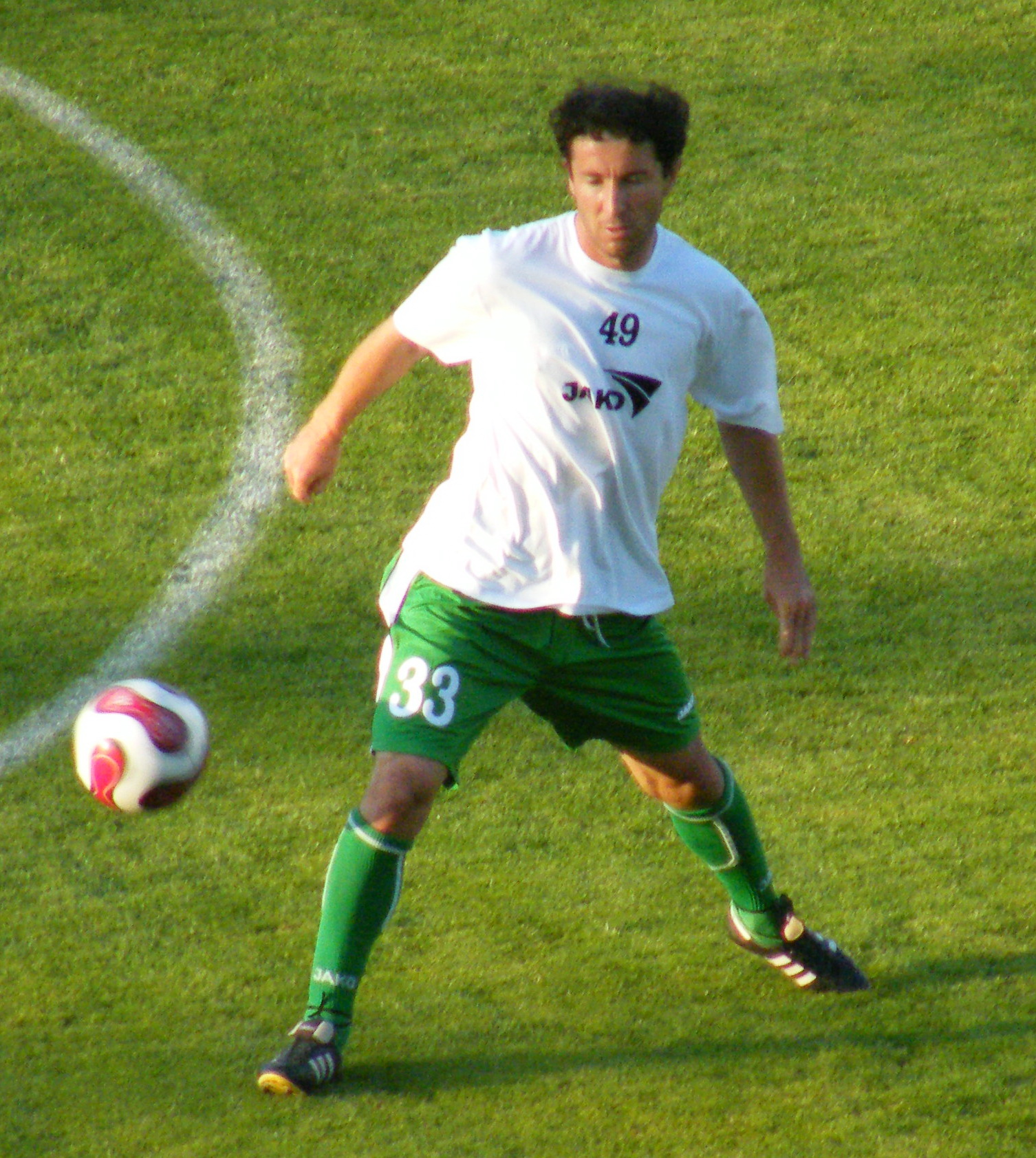 Krisztián Lisztes Hungarian football player